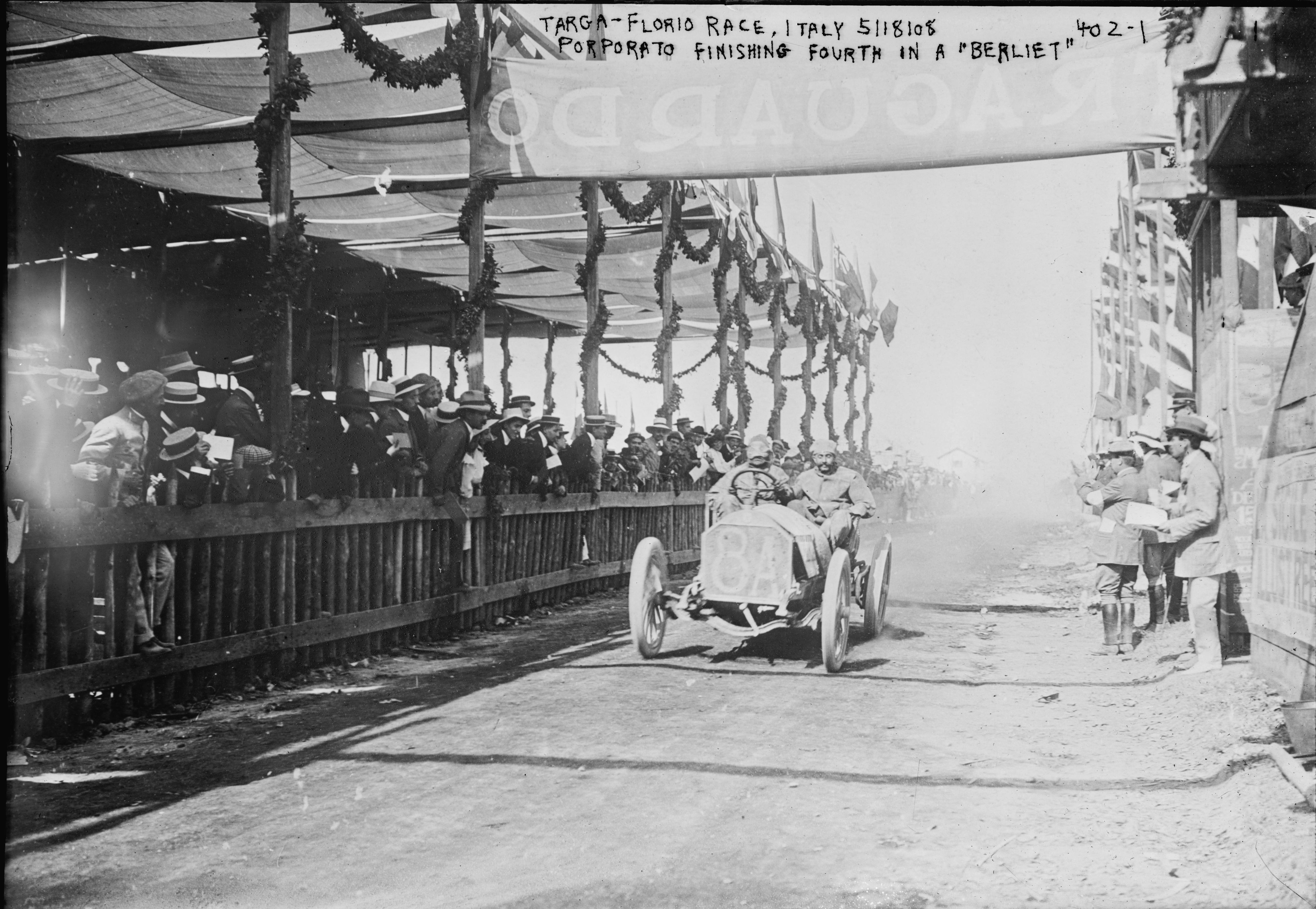 Targa-Florio Auto Race, Italy, May 18, 1908. Jean Porporato in a "Berliet" is finishing fourth before the grandstand.